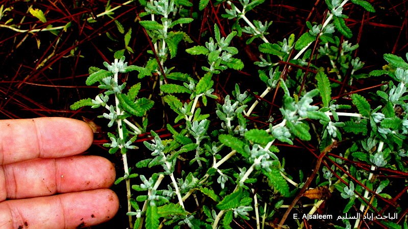 نباتات برّية سورية تؤكل